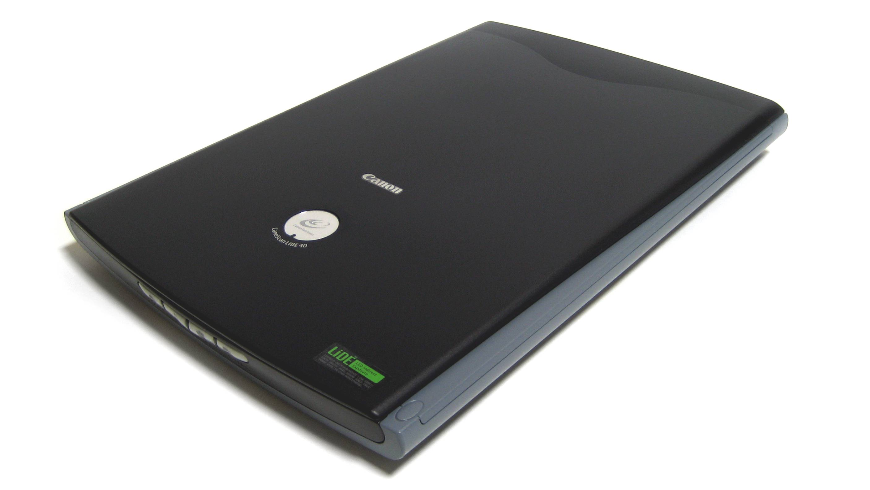 CanoScan LiDE40 is Canon's A4 USB CIS flatbed image scanner.